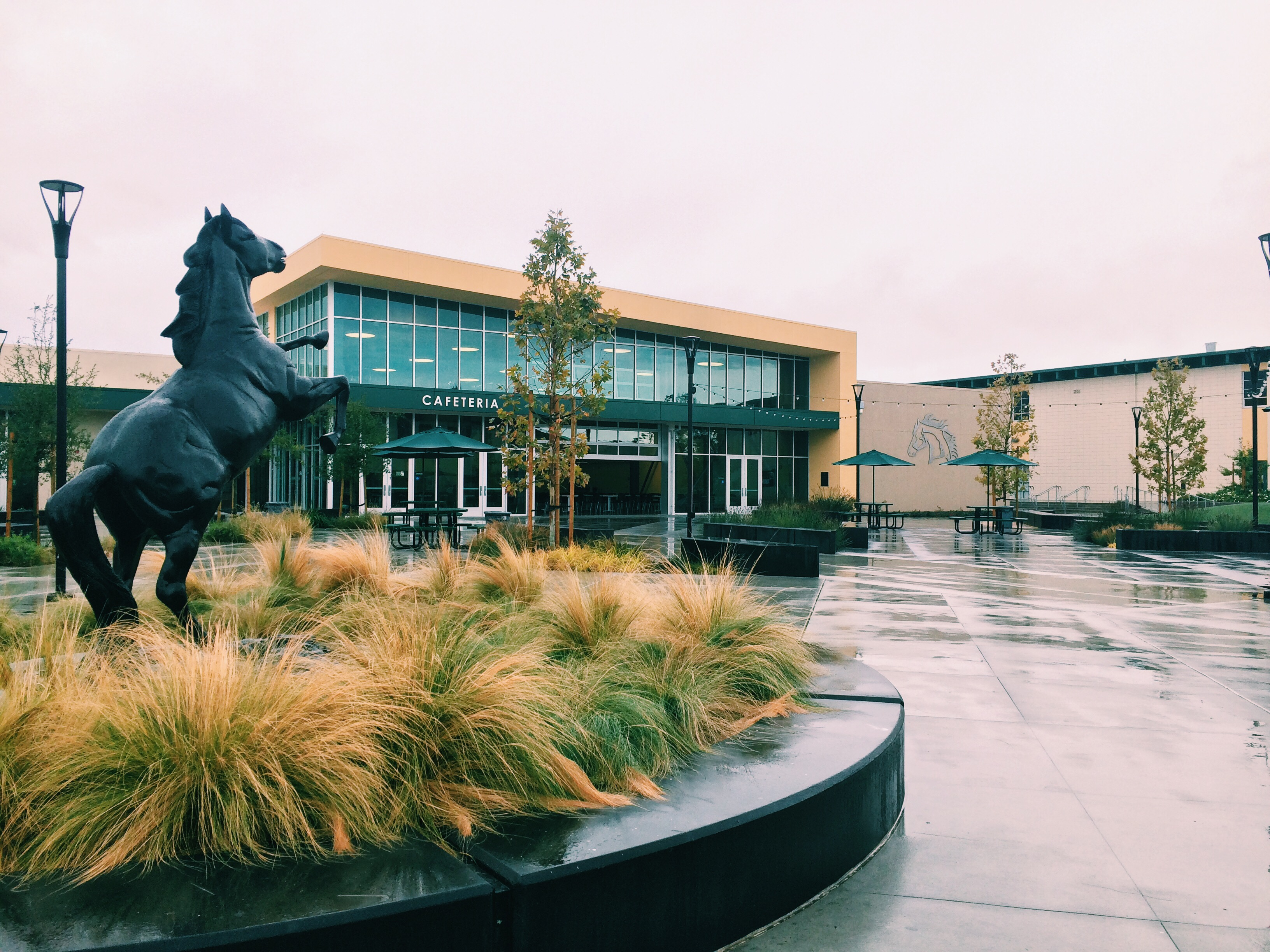 Photo of the renovated quad at Homestead High School in Cupertino, CA